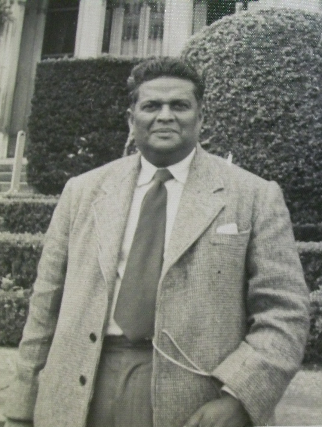 J.C.A.Corea, the first Sri Lankan Principal of the prestigious Royal College Colombo. Aelian Corea was also a diplomat serving as the Education Officer at the High Commission of Sri Lanka in the United Kingdom.